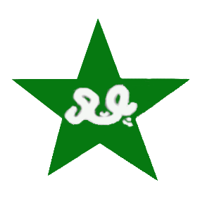 Logo of the Pakistan Cricket Team. I made it in Adobe Photoshop CS.